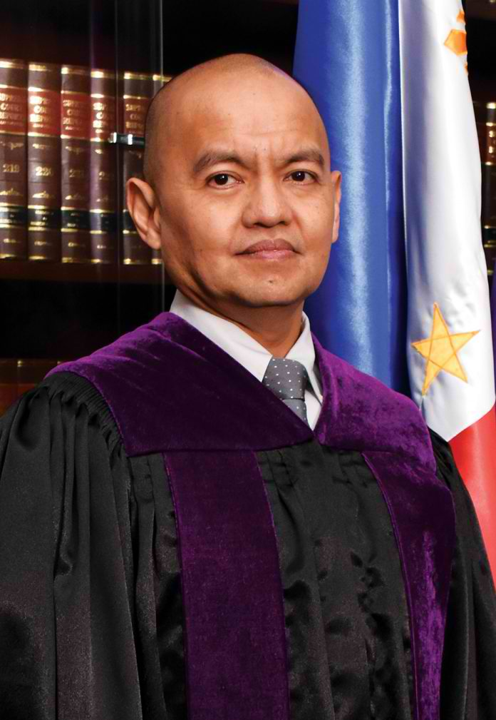 Official Portrait